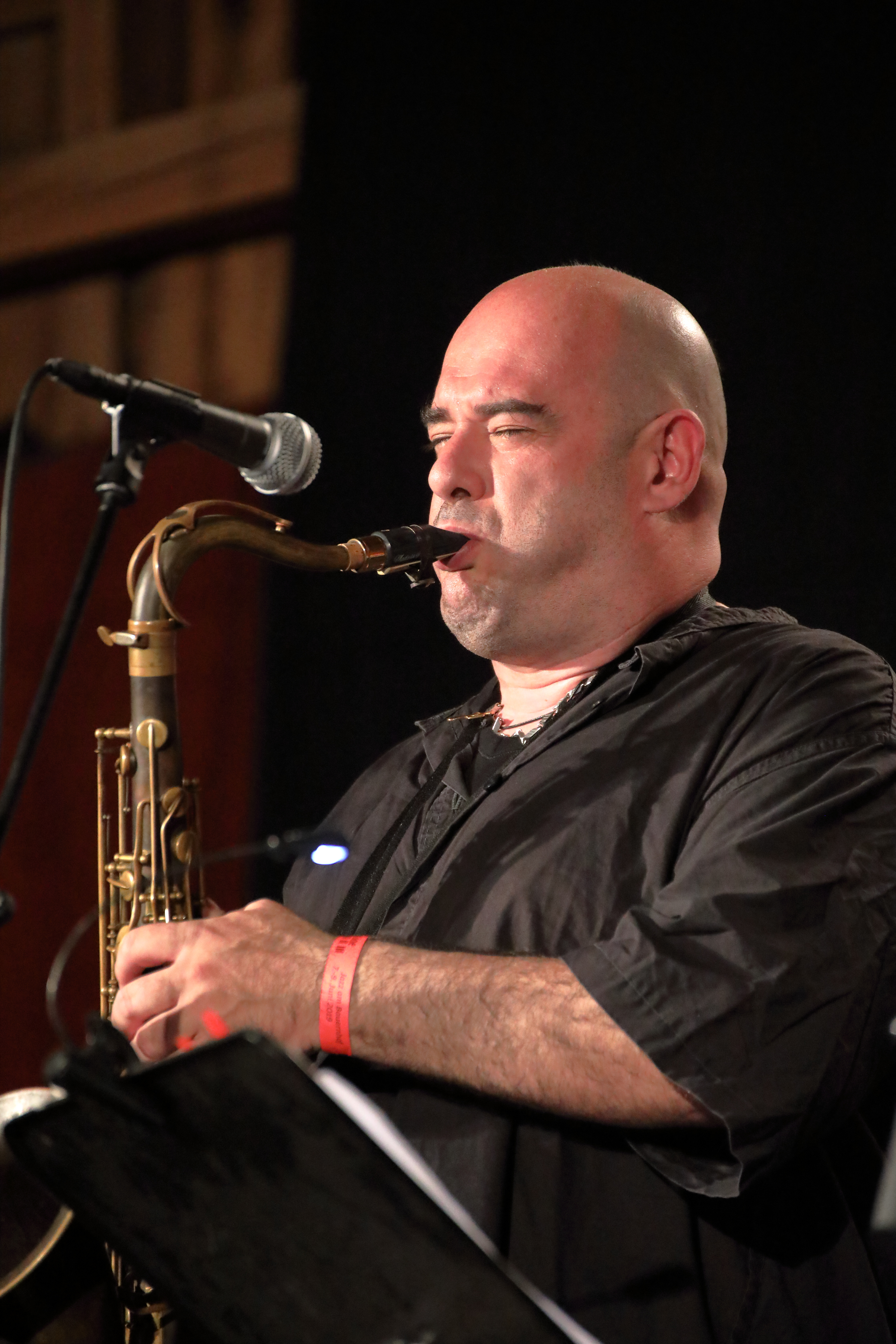 The sardinian choir Tenore Goine di Nuoro with the Gavino Murgia Blast Quartet at INNtöne Jazzfestival 2019.